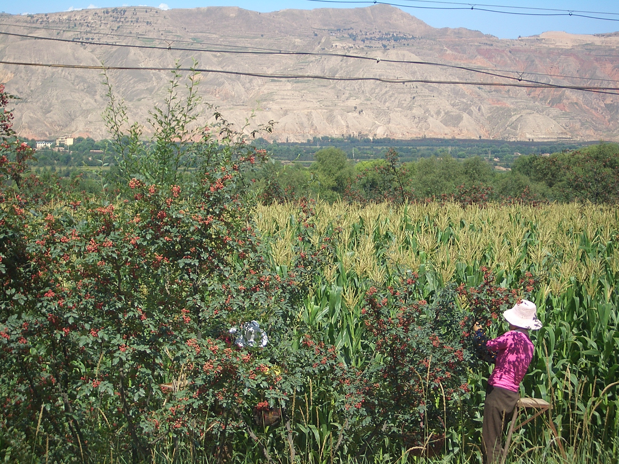 Maize fields in the valley of Daxia He River, in the northeastern part of Linxia County (probably, Xihe Township). Farmers are harvesting little pepper-like fruit from some shrubs commonly grown in the area.